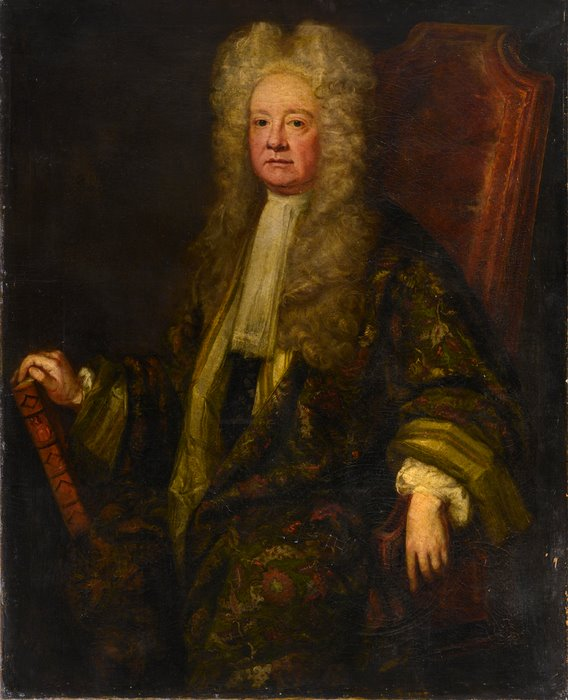 Sir Henry Langford, of Combe Satchville, Silverton; Kingskerswell, in Devon, Judge and Sheriff of Devon. 1710 portrait by William Gandy (1650-1729). Royal Albert Memorial Museum, Exeter, Devon. William Gandy 1650-1729 1710, Oil on canvas Size of original work: 125.3 x 100.7 cm